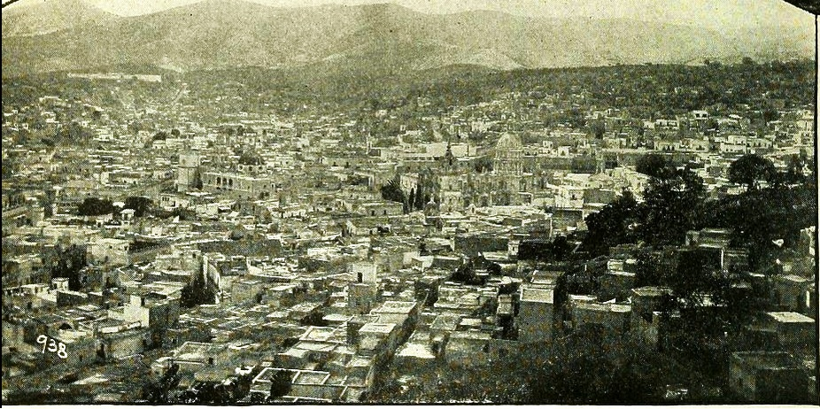 Identifier: mexicotodaytomor00vinc Title: Mexico today and tomorrow; an outline of the present earning power and future possibilities of her railroad systems. Facts, figures and suggestions regarding the principal traffic producing centers Year: 1906 (1900s) Authors: Vincent, Ralph Waterman Subjects: Railroads Publisher: [New York?] Text Appearing Before Image: ' Text Appearing After Image: TWO GENERAL VIEWS OF PACHUCA. some points in common with our own Capital City and als.Jdiffers from it in many respects. Mexico City has a popu-lation of 400,000, while Washington has only about 280,000..Probably more foreign nations are represented here than inWashington. An American coming here for the first timomust be strongly impressed with the idea, however, that hisfellow countrymen are well represented and not only thattheir ideas regarding the management of business and of agreat city have been introduced, but also that a large num-ber of Americans are actually on the ground engaged in th;-.widely varying activities of the city. Mexico City is a thoroughly modern town in many re-spects. All of the principal streets are asphalted, thewhole city is generously lighted by electricity, while itand a large group of suburbs are served by an excellentsystem of trolley cars. The trolley company has as itsgeneral manager, W. W. Wheatley, formerly of Newark,N. J. The streets are well ke